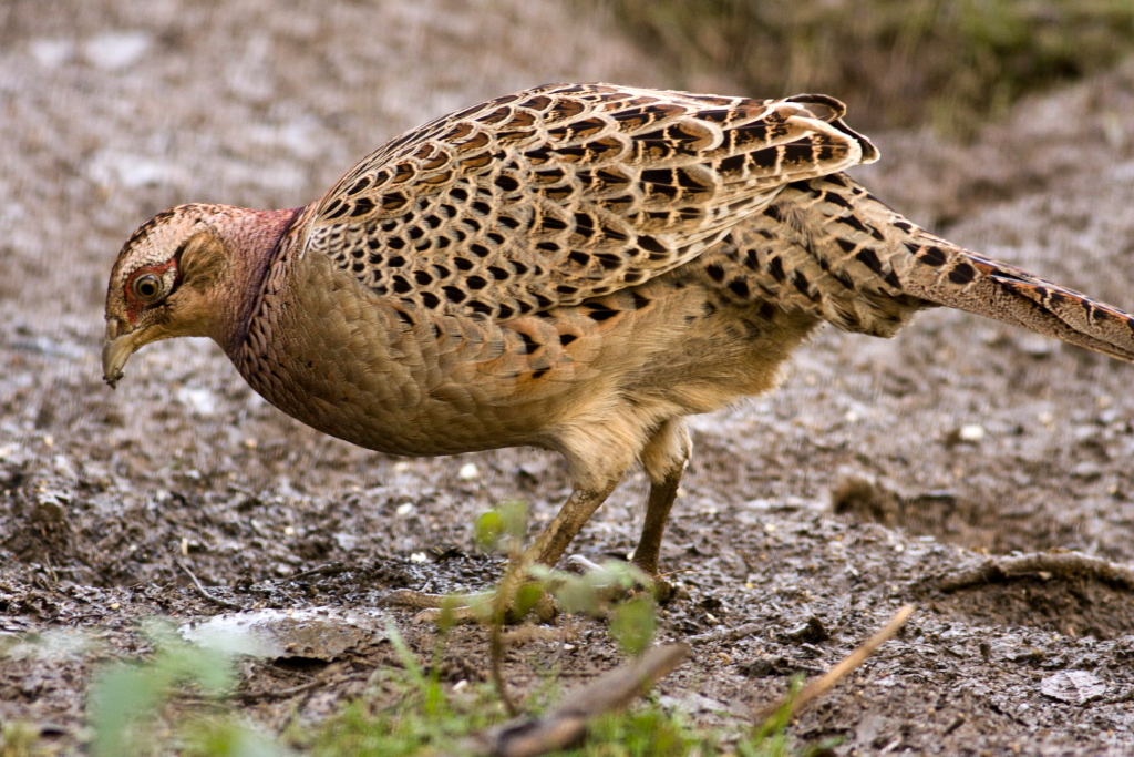 A female Common Pheasant near Rutland Water, Rutland, England on a cold but sunny December afternoon.